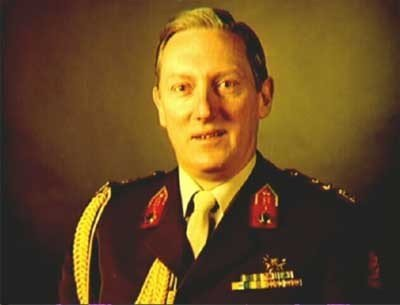 General Govert Huyser, chief of the joint chiefs of staff of the Netherlands from 1983 till 1988.